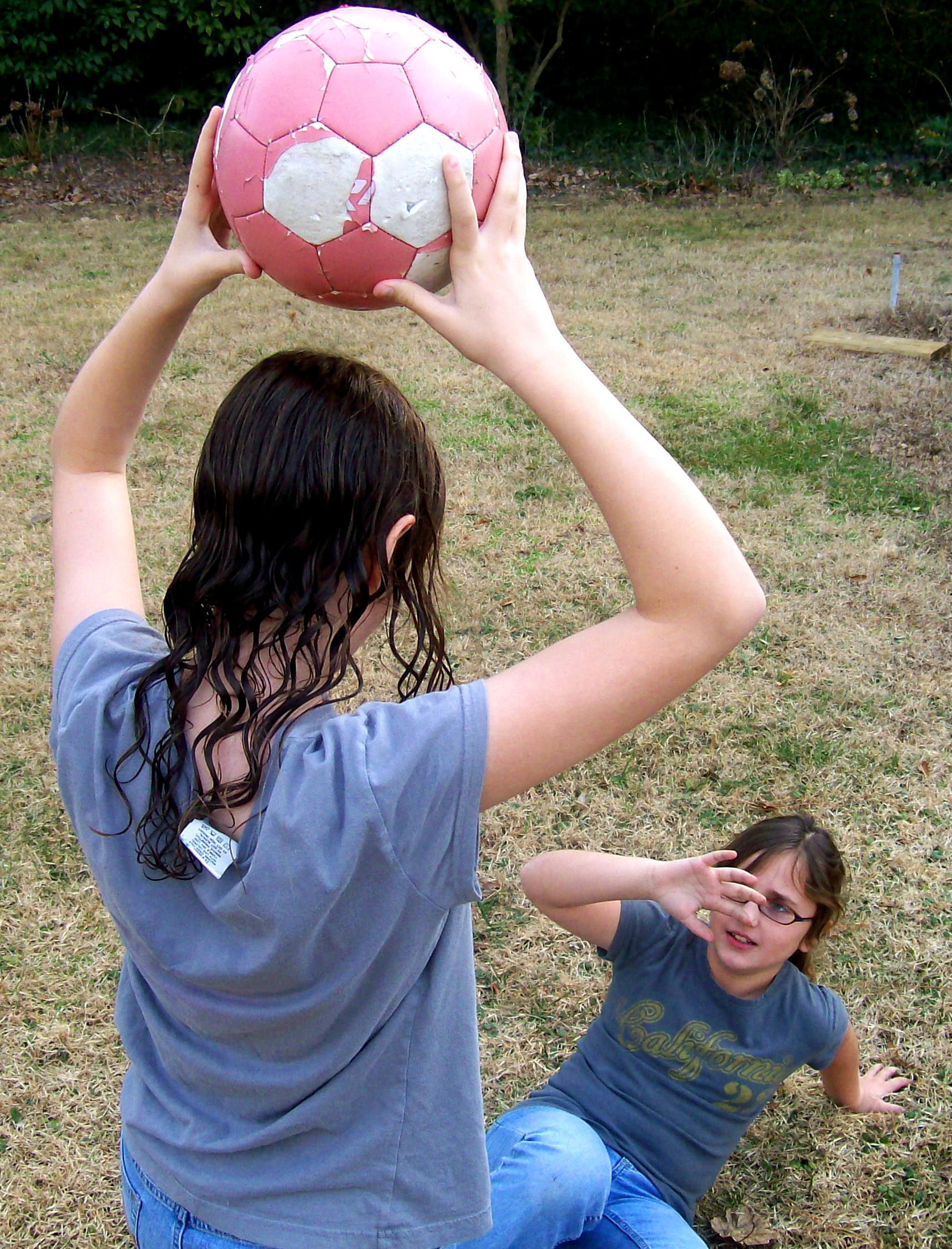 Created for related article for class